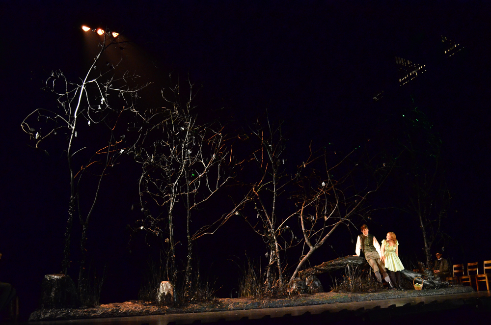 "The Word of Your Body" from Carnegie Mellon University's Production of "Spring Awakening" Director: Tome' Cousin Musical Direction: Thomas Douglas Scenic Designer: Bryce Cutler Lighting Designer: Dan Efros Costume Designer: Mary Stein Sound Designer: Daniel Lundberg